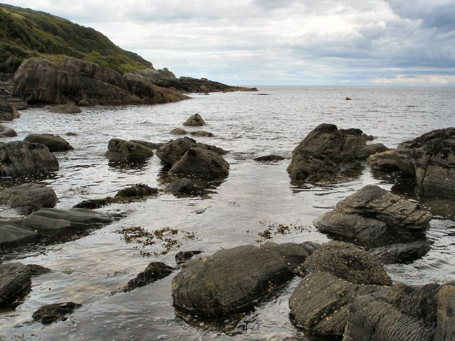 Rocky bay at Kinnagoe In this rocky bay the ship La Trinidad Valencera of the Armada fleet was wrecked near the shore in 1588. The wreck was found by local divers in 1971 and over the subsequent years many objects were recovered which are now in the Museum in Derry.